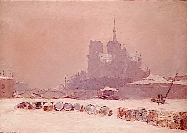 Notre-Dame de Paris, Neige, Rouen, musée des beaux-arts de Rouen.